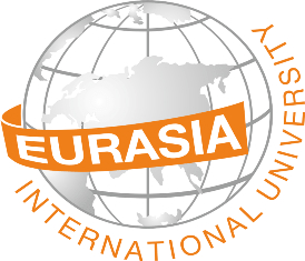 Eurasia International University logo.